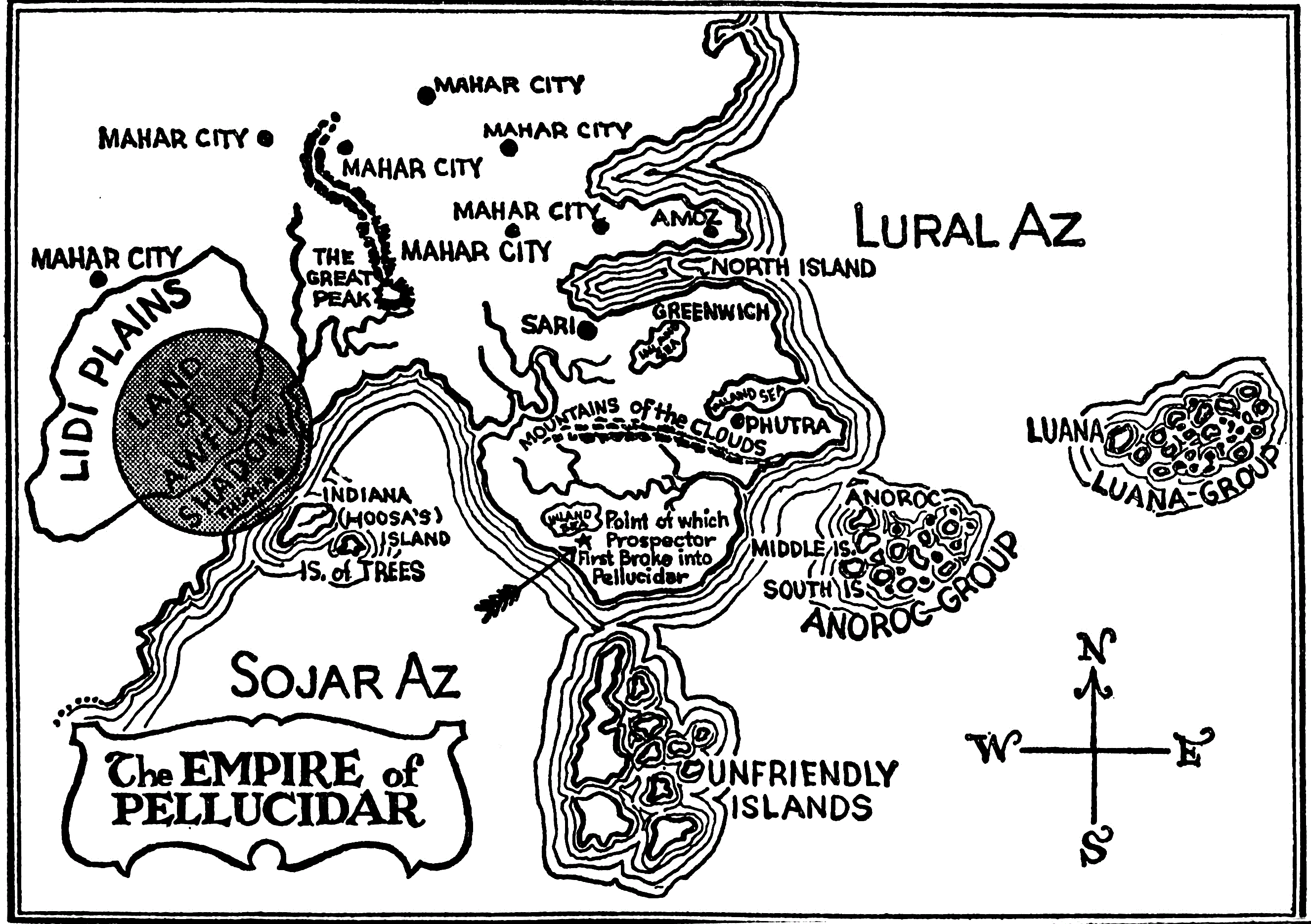 Original map of Pellucidar, from the first edition of Pellucidar (1915) (1962 reprint)